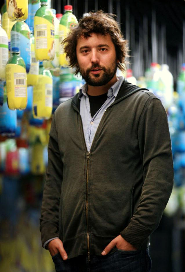 This is a photo of TerraCycle CEO Tom Szaky.